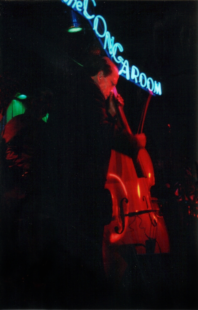 Personal Picture of bassist Cachao taken by contributor Migdiachinea